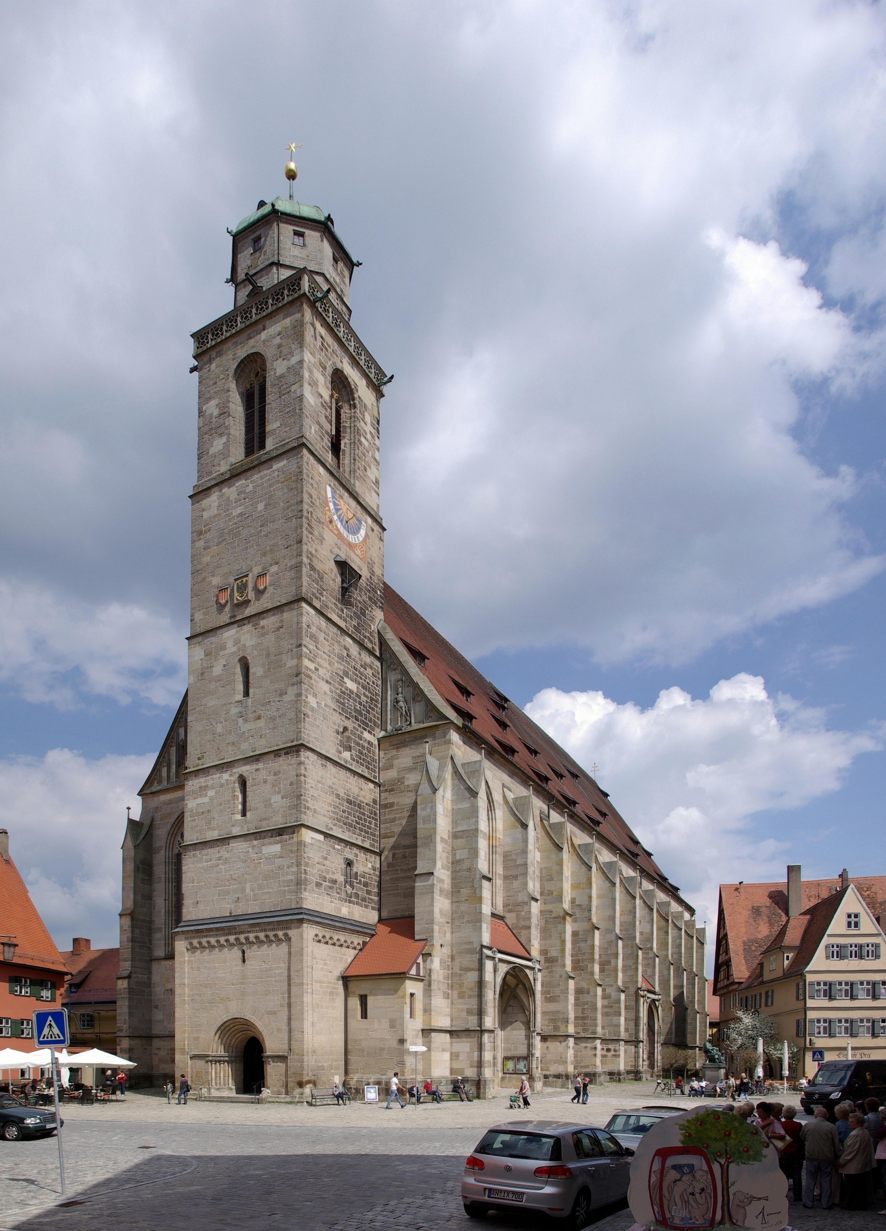 Germany, Dinkelsbühl, Church St. Georg.